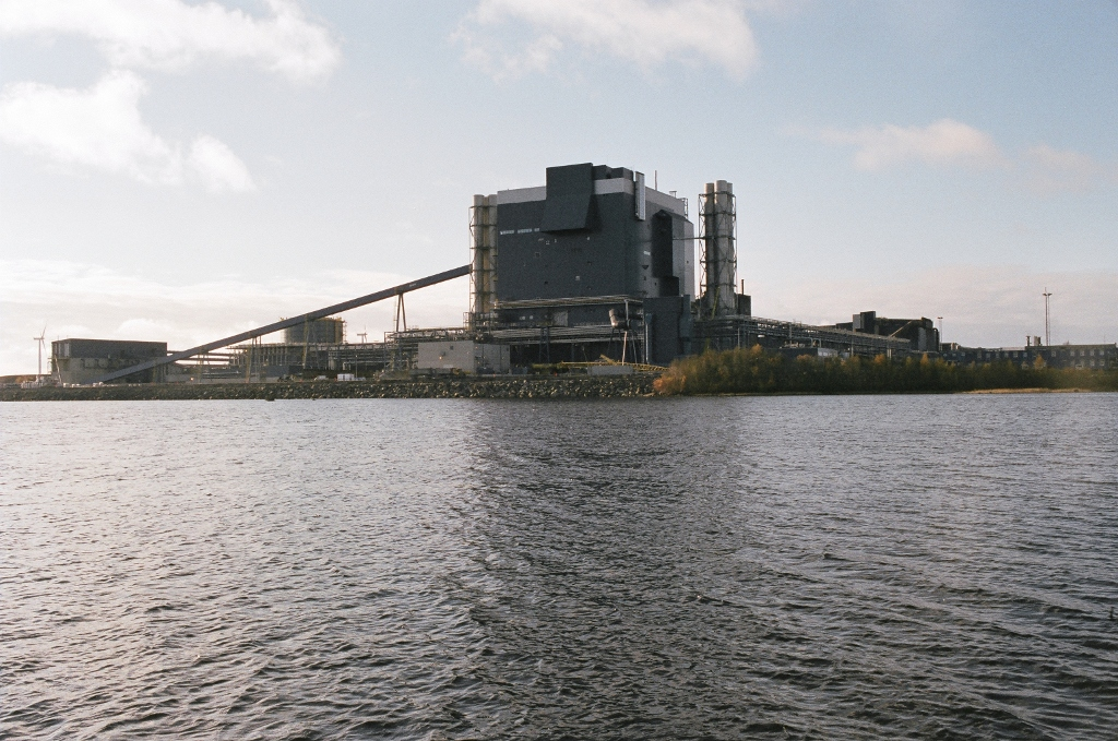 A part of the Outokumpu works in Röyttä, Tornio, Finland. Prominently featured in the photo is a new ferrochrome plant, probably not yet operational at the time the photo was taken.